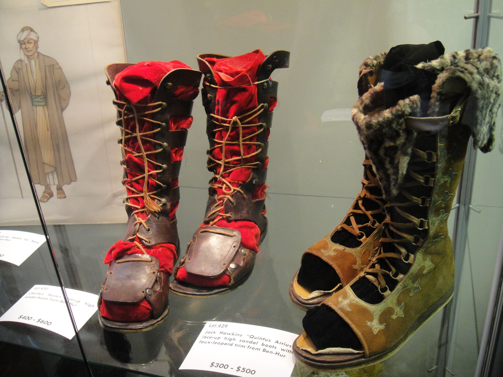 Costumes from the film Ben Hur at the Debbie Reynolds Auction Breaks Up Historic Hollywood Collection (The Paley Center for Media in Beverly Hills, Los Angeles, CA, USA). On the left: Charlton Heston (Judah Ben-Hur) lace up high sandal boots. On the right: Jack Hawkins (Quintus Arrius) lace up high sandal boots with faux-leopard trim.